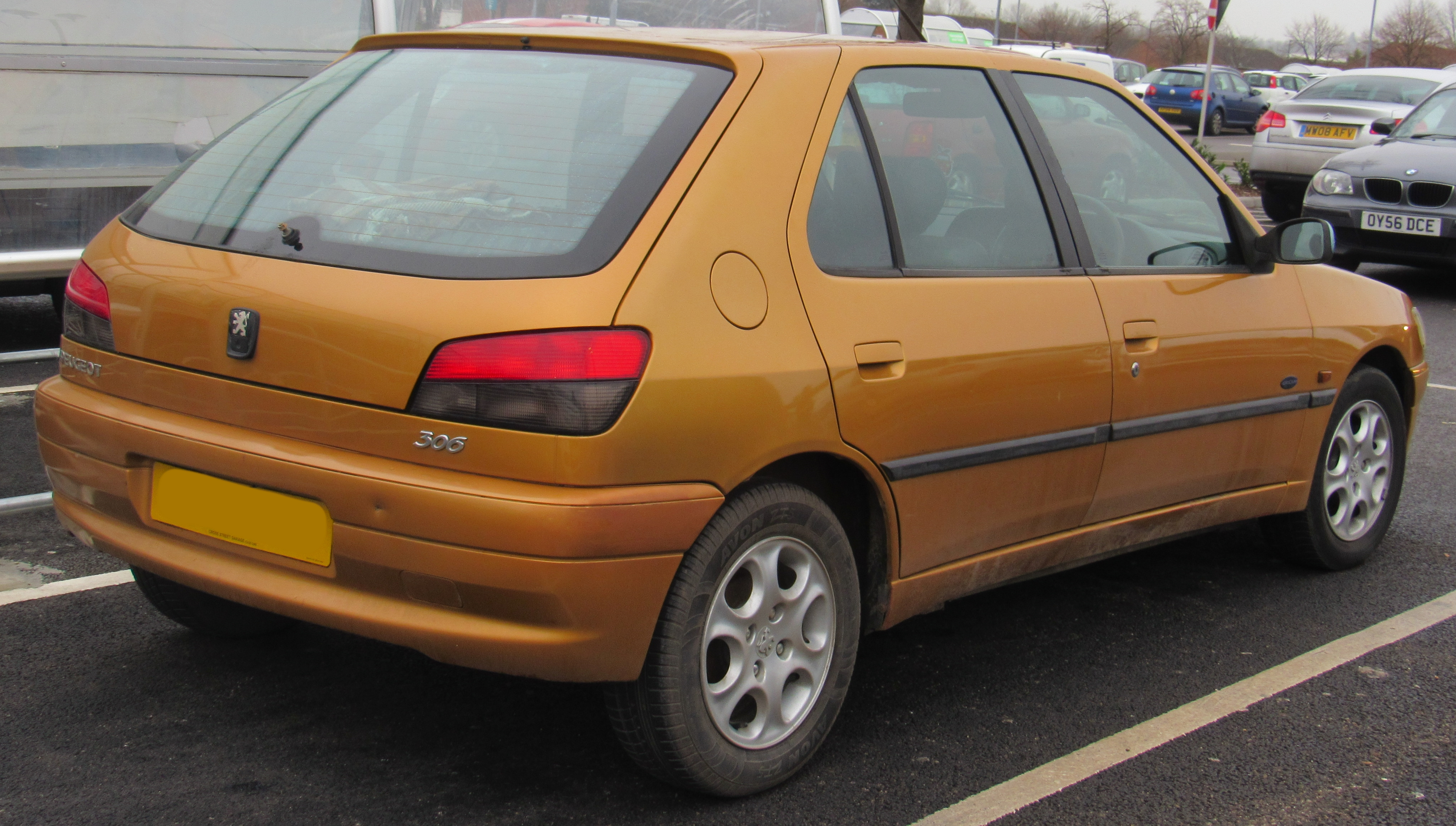 1999 Peugeot 306 Meridian 1.6 Rear Taken in Leamington Spa